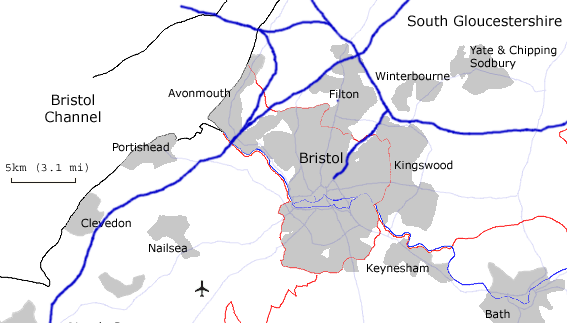 Cropped map of Bristol, can be modified to show locations of places of interest.